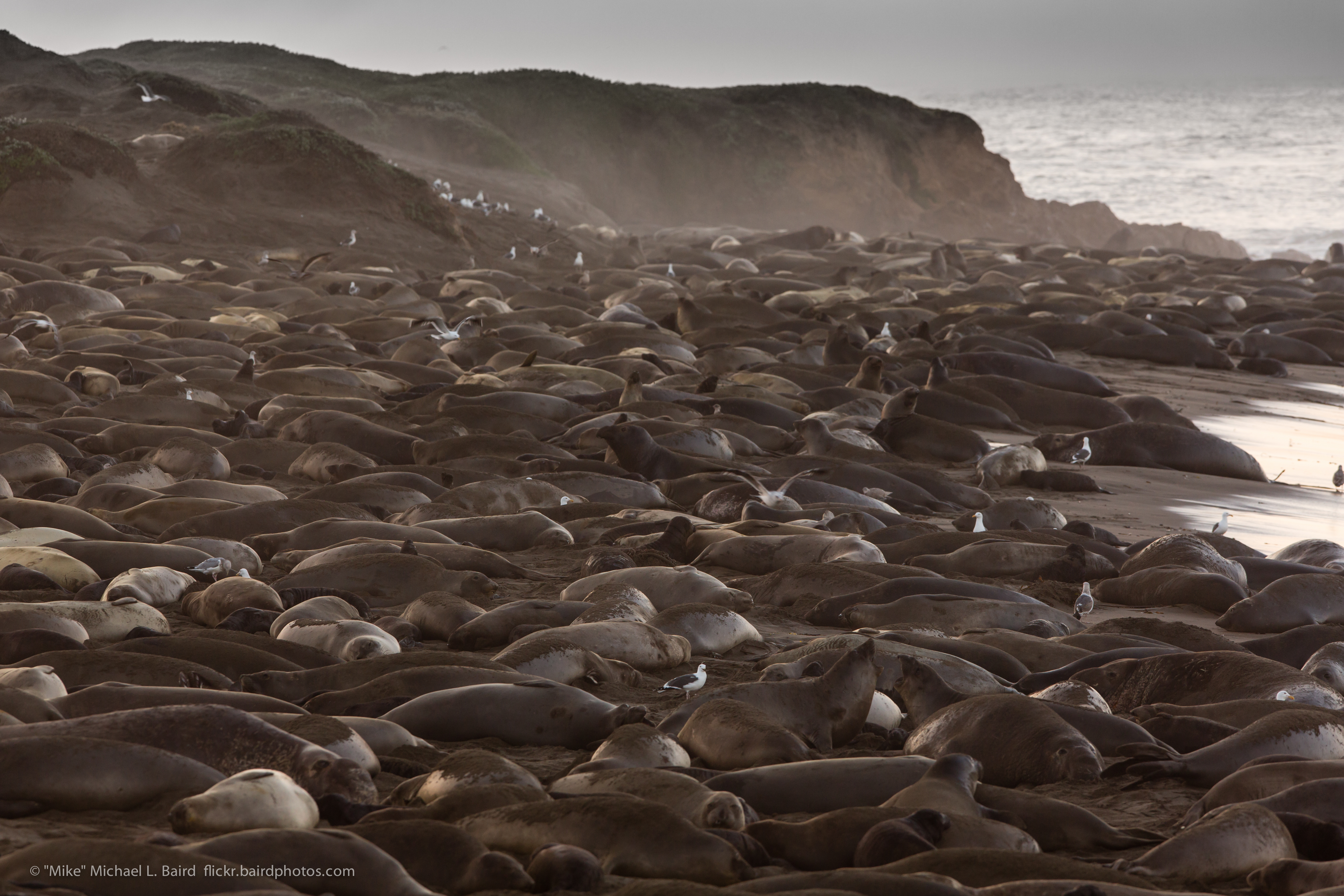 Northern Elephant Seals (Mirounga angustirostris) at sunrise early light at Piedras Blancas, San Simeon, CA . 26 Jan 2013. Looking south from the main observation area and boardwalk. The Piedras Blancas rookery, on Highway 1 seven miles north of San Simeon on the California Central Coast, is home to about 17,000 animals. Because the tide was very high at ~ 5.5’ this morning, the elephant seals were especially crowded into this narrow swath of beach. (10 images in this set) Photographing the Northern Elephant Seals (M. angustirostris) at Sunrise. Sat, Jan. 26, 2013, on a slightly foggy day that turned into a beautiful sunny experience. Mating, giving birth, fighting, yelling and squealing, and vying for very limited beach space, this Elephant Seal display is a must-see phenomenon, especially during the months of December, January, and February. See Friends of the Elephant Seal's for more information. Photo © 2013 “Mike” Michael L. Baird, mike {at] mikebaird d o t com, . Canon 5D Mark III with a Canon 300mm f/2.8 lens, circular polarizer, no flash, handheld, RAW. Aperture priority. See EXIF for photo-specific exposure settings. IS on. GPS geotag is realtime from an on-camera Canon GP-E2 GPS Receiver. To use this photo, see access, attribution, and commenting recommendations at - Please add comments/notes/tags to add to or correct information, identification, etc. Please, no comments or invites with badges, images, multiple invites, award levels, flashing icons, or award/post rules.